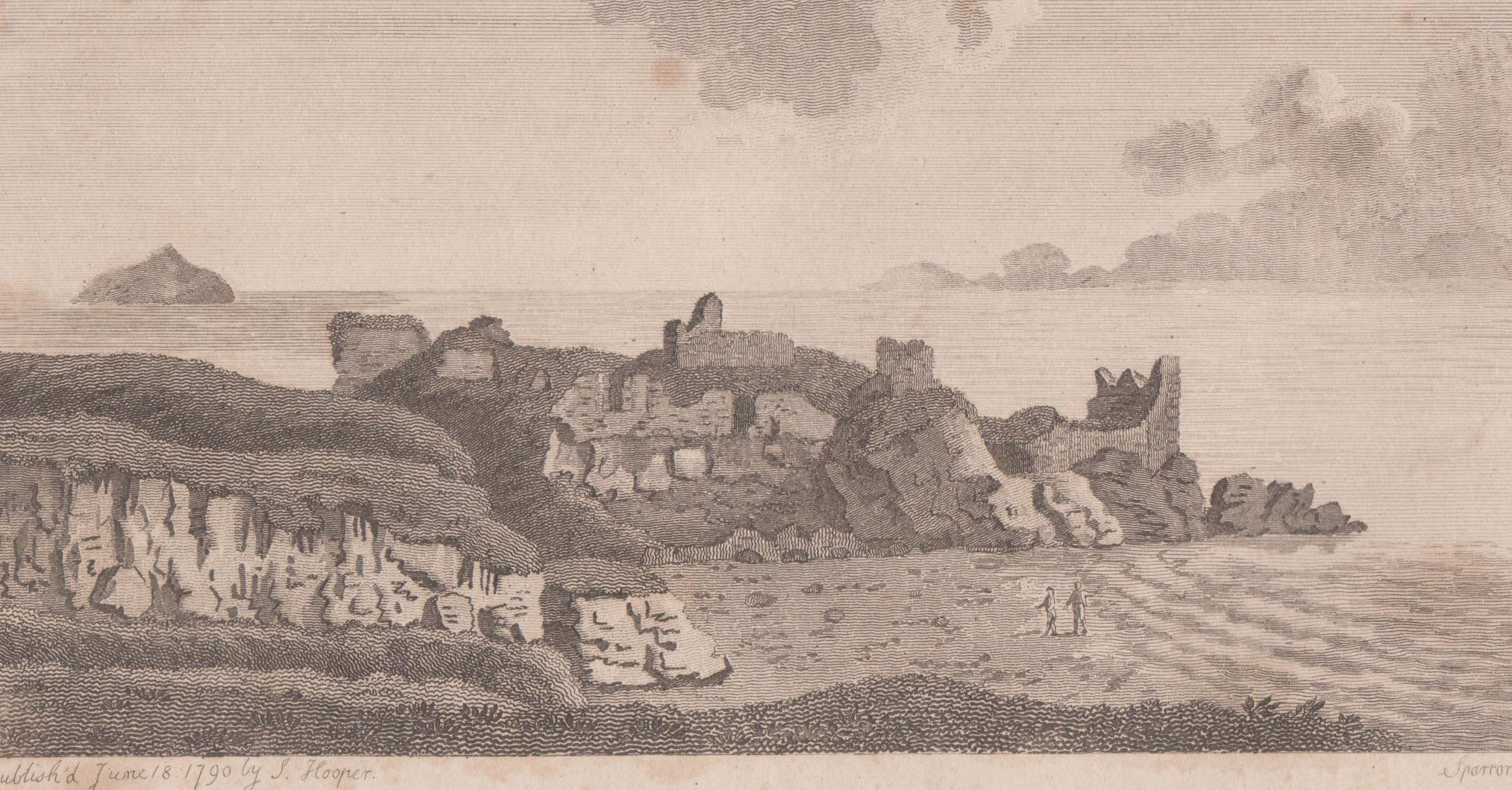 Ailsa Craig with Turnberry Castle in the foreground, South Ayrshire, Scotland.